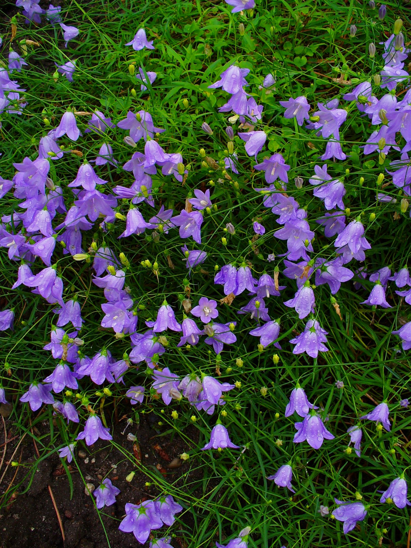 Campanula rotundifolia, Campanulaceae, Harebell, habitus; Botanical Garden KIT, Karlsruhe, Germany. The plant is used in homeopathy as remedy: Campanula rotundifolia (Camp-ro.)